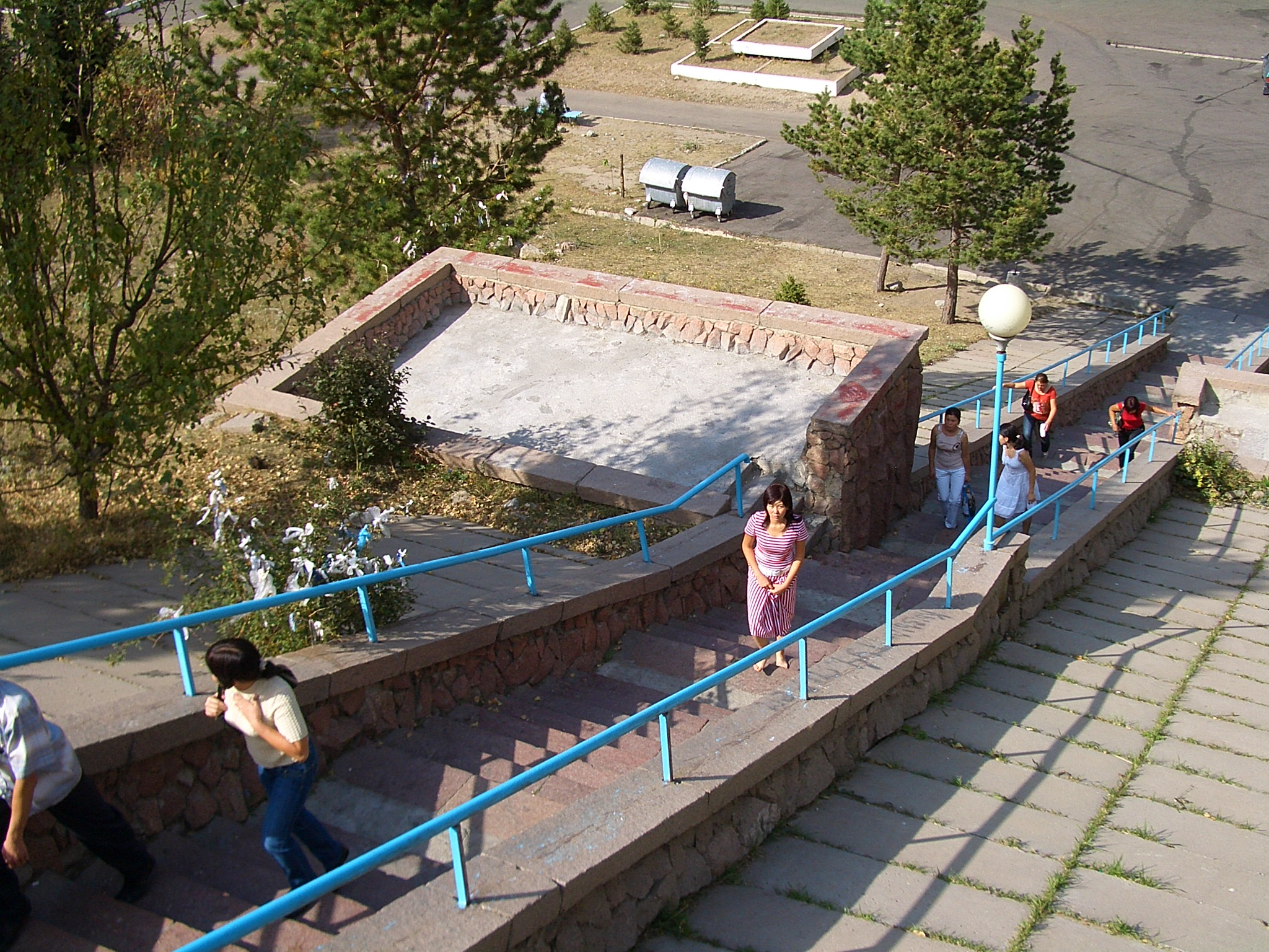 The Medeu (Medeo) anti-mudflow dam just south of the Medeu skating rink